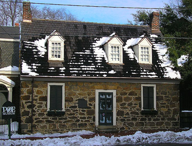 Edgar A. Poe Museum, Richmond, VA